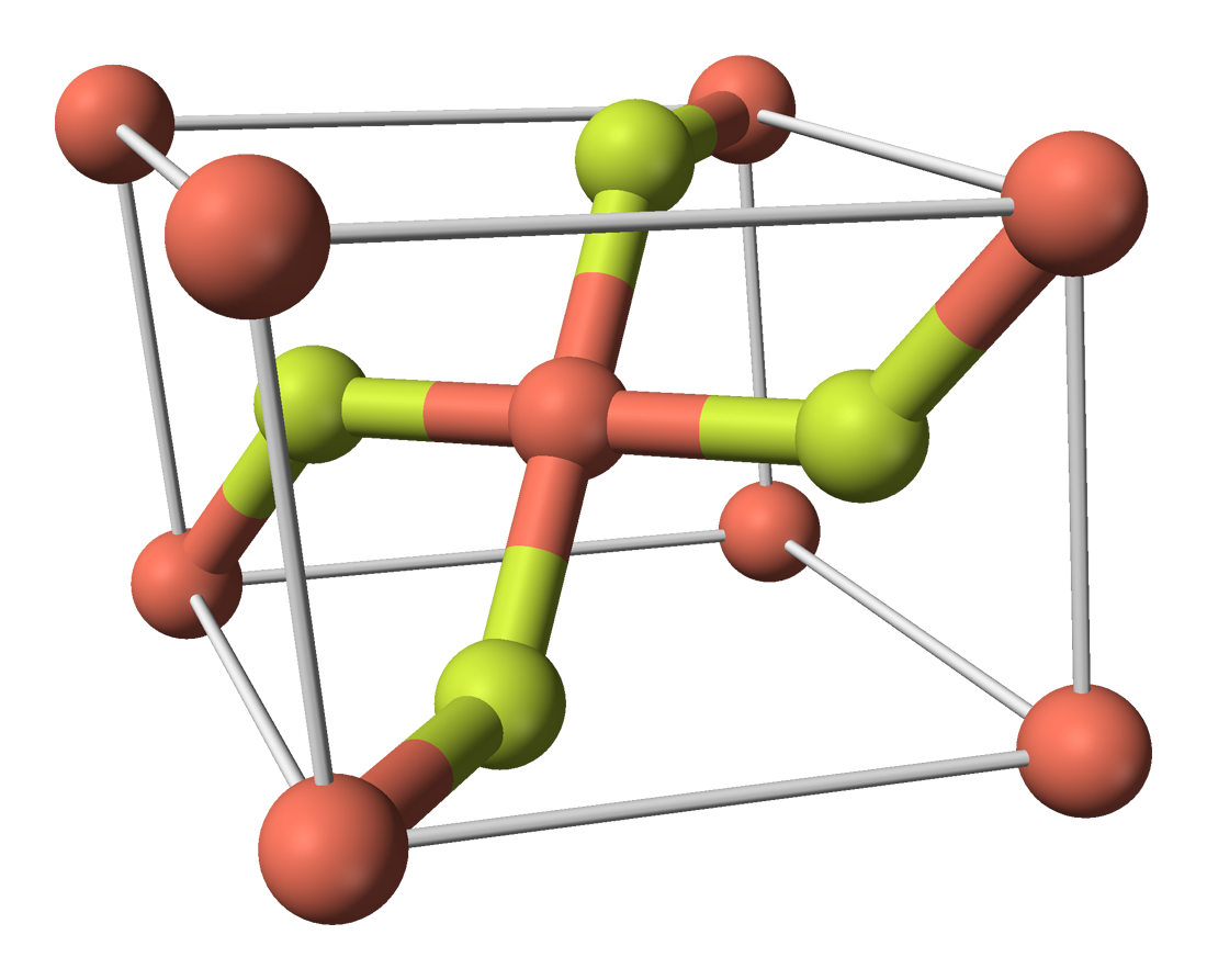 Ball-and-stick model of the unit cell of copper(II) fluoride, CuF2